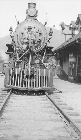 On the set with cinematographer, Henry Cronjager